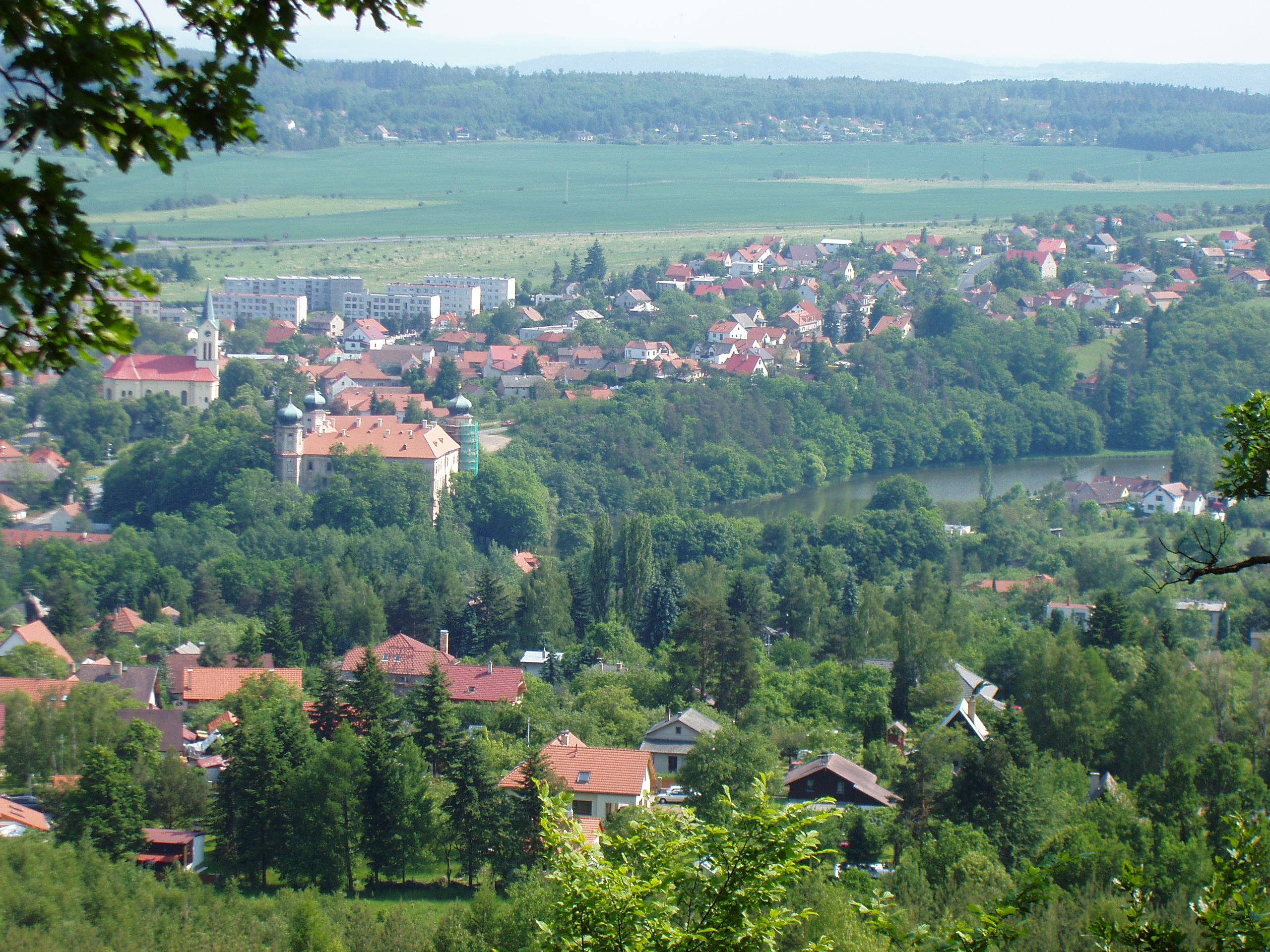 Town of Mníšek pod Brdy as seen from NNE.